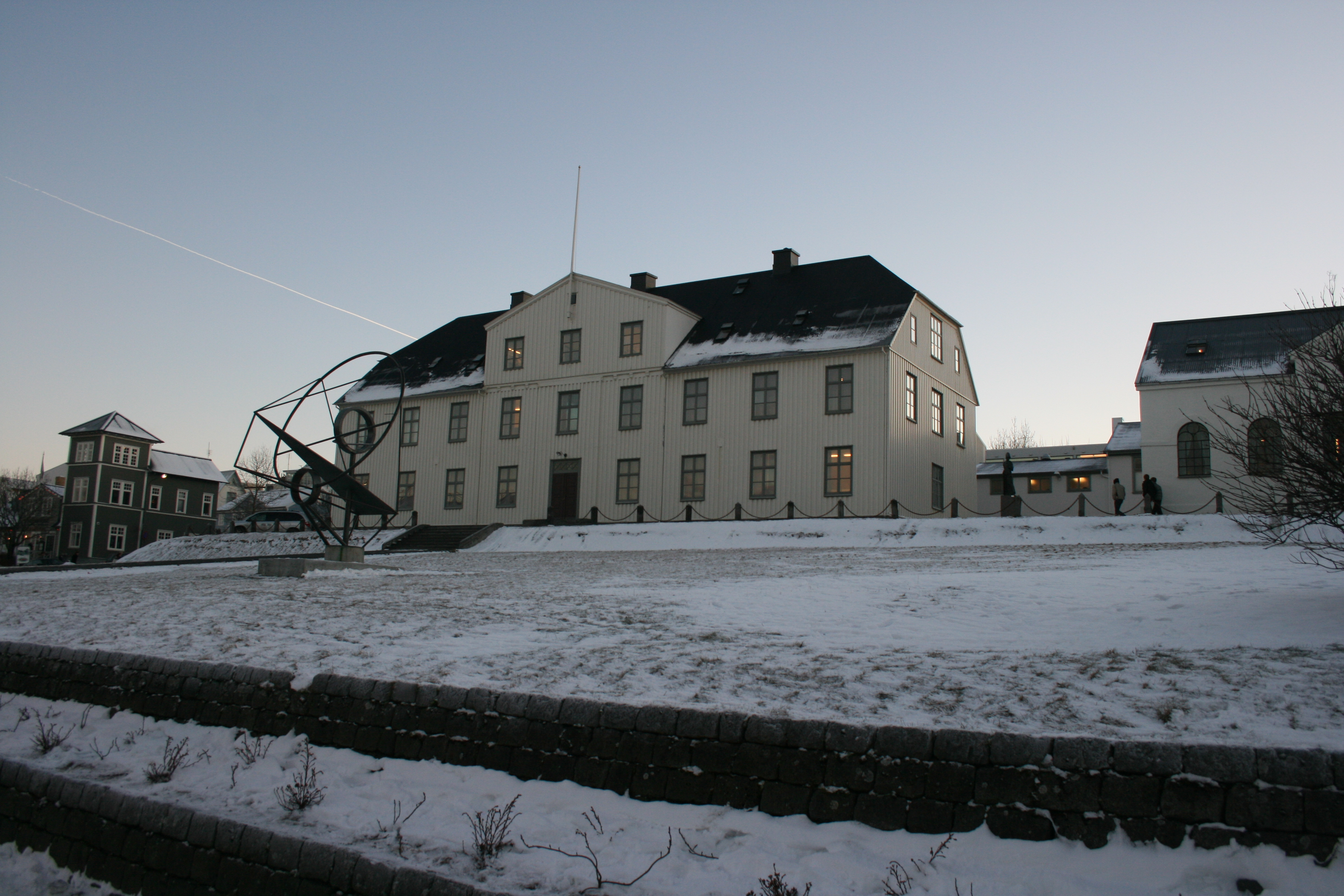 An image of MR, taking on a cold January day